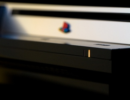 A picture of the PS3 system illuminating the yellow light meaning a hardware failure.